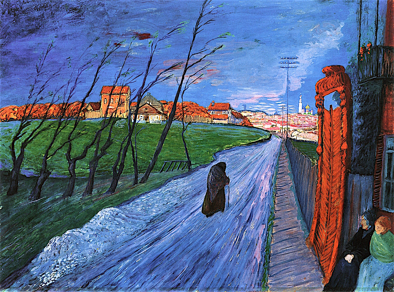 painting by Marianne von Werefkin